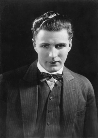 Promotional postcard portrait of German actor Werner Pittschau (1902–1928).